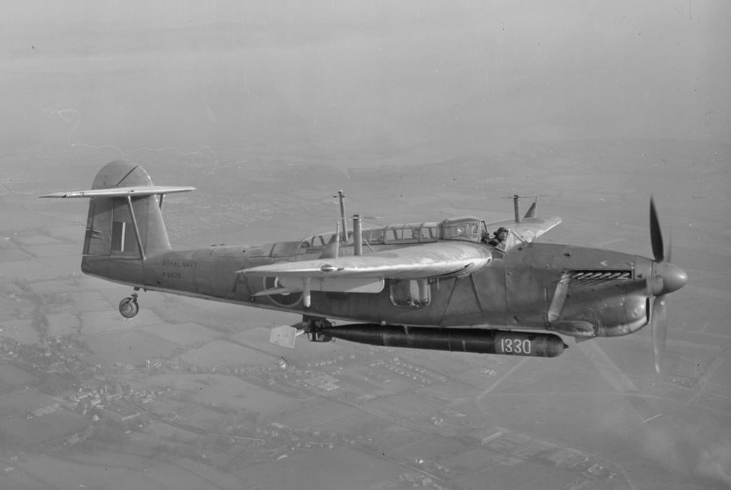 A Royal Navy Fairey Barracuda II (s/n P9926) from Lee-on-Solent Fleet Air Arm Station, Hampshire (UK), with torpedo, in flight. The wooden plane that steadied the torpedo before it struck the water and broke off can be clearly seen at the rear of the weapon.